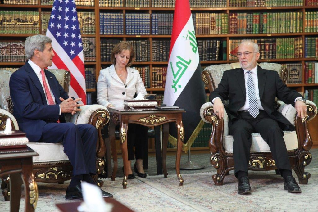 U.S. Secretary of State John Kerry meets with Iraqi Foreign Minister Ibrahim al Ja’fari in Baghdad, Iraq on September 10, 2014. [State Department photo/ Public Domain]